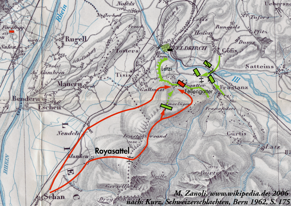 Plan of the battle of Frastanz, 20. April 1499, during the Swabian War. Red: Troups of the Swiss Confederacy; Green: Troups and fortifications of the Swabian Ligue